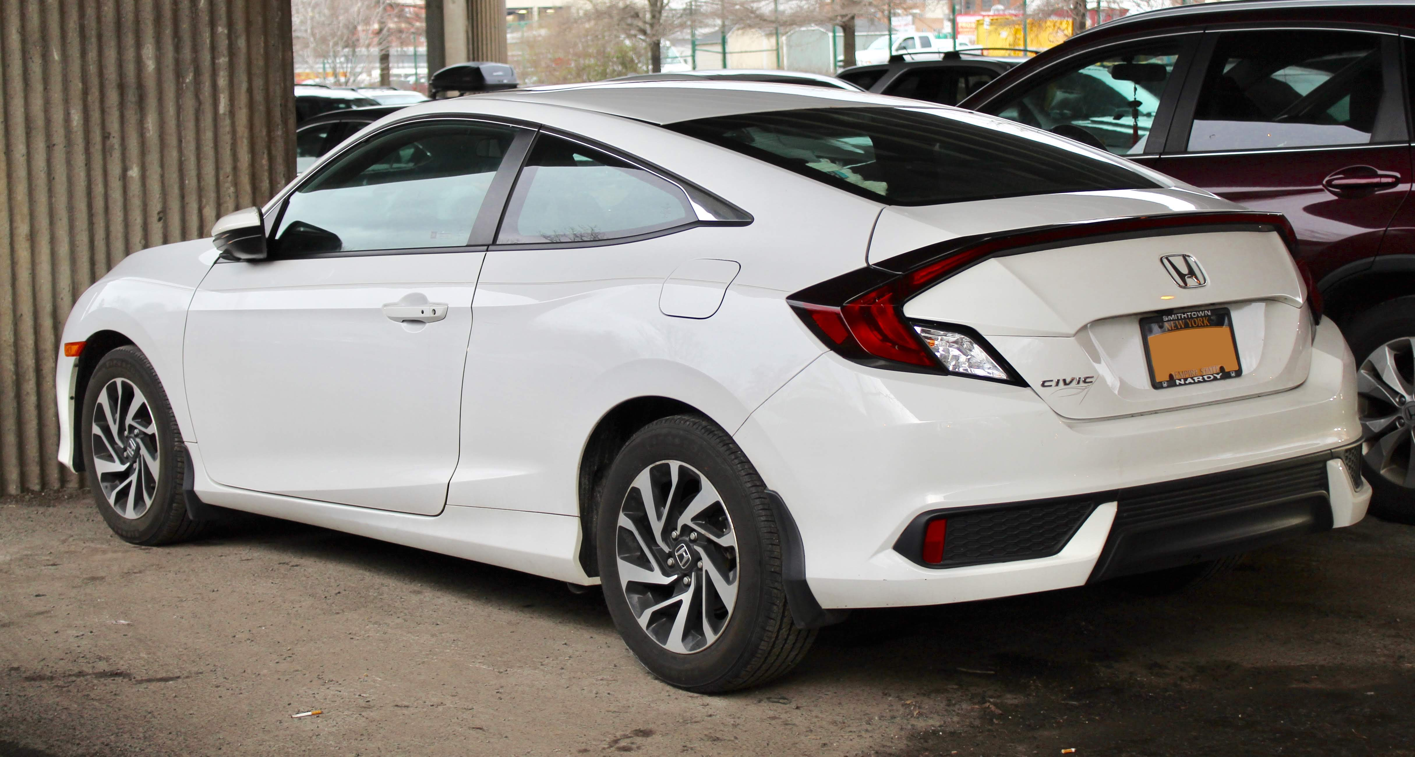 Photographed in Flushing, Queens, New York, USA